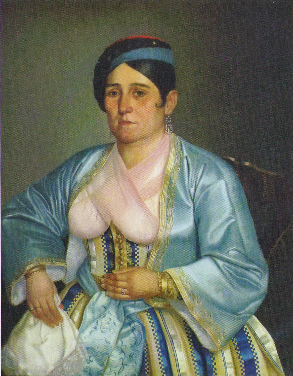 Stamenka Karađorđević Čarapić, the daughter of Karađorđe